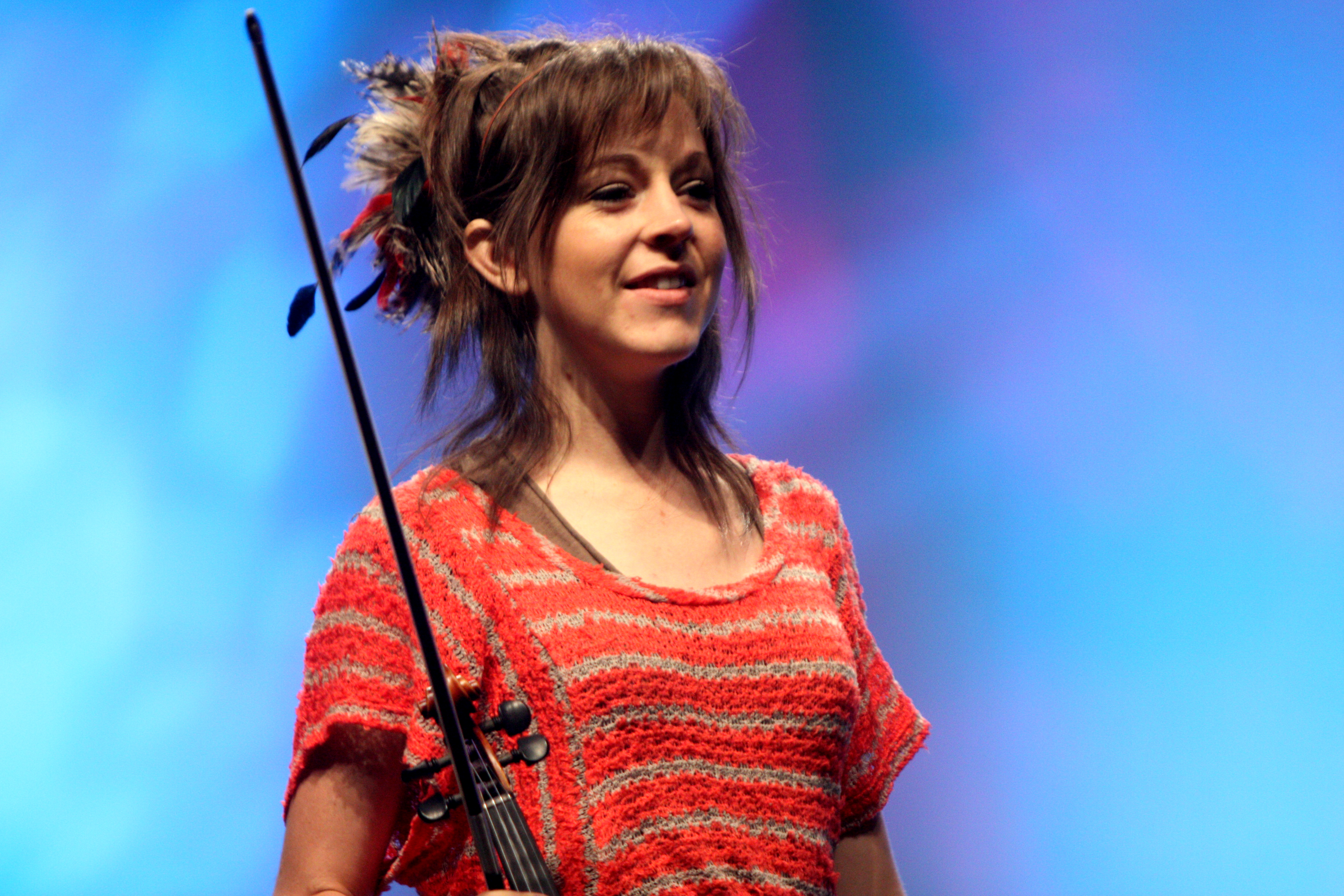 Lindsey Stirling performing at VidCon 2012 at the Anaheim Convention Center in Anaheim, California.